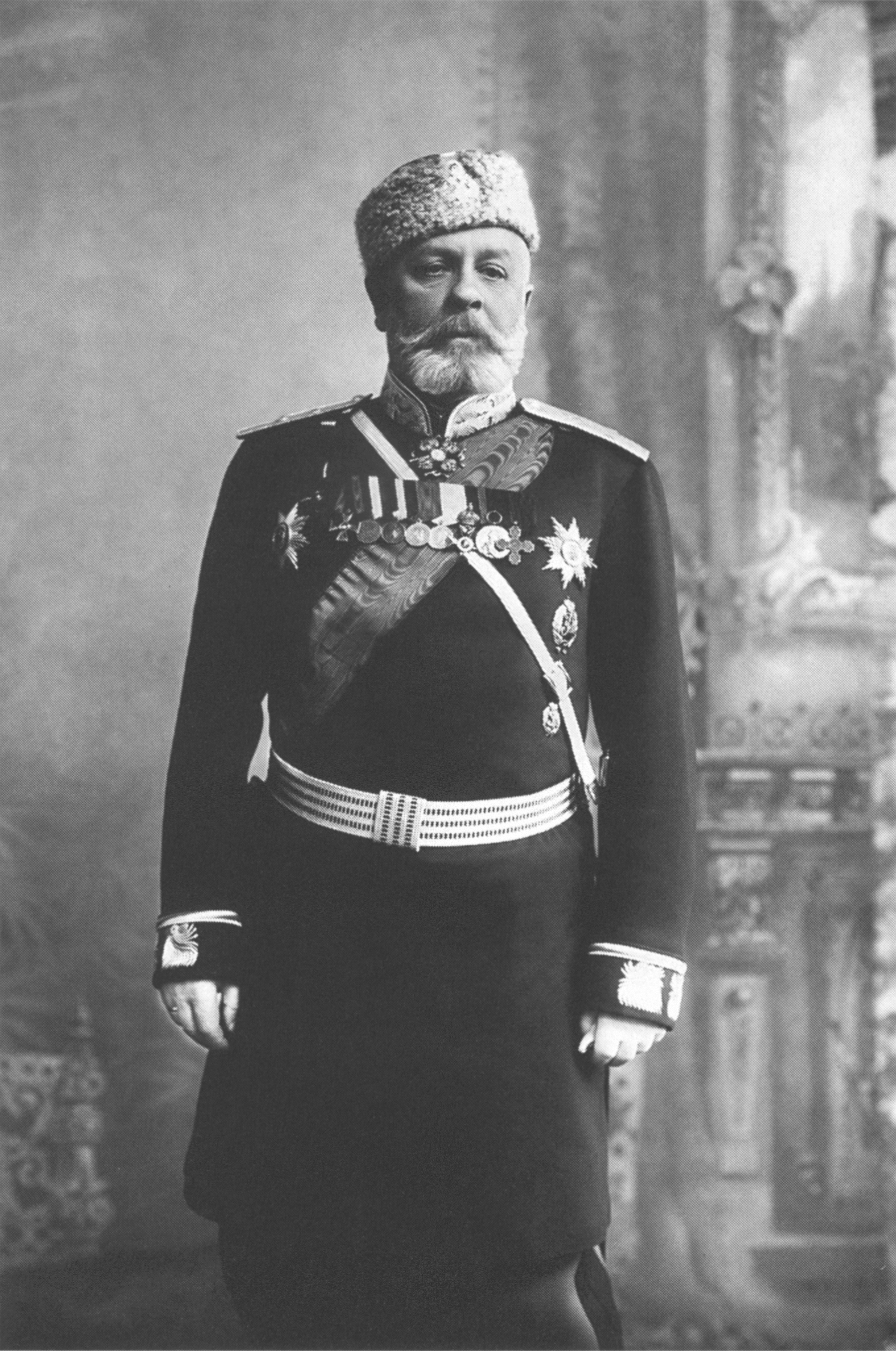 Ivan Aleksandrovich Fullon (1844-1920), was a Russian general; St Petersburg's governor. 1904.